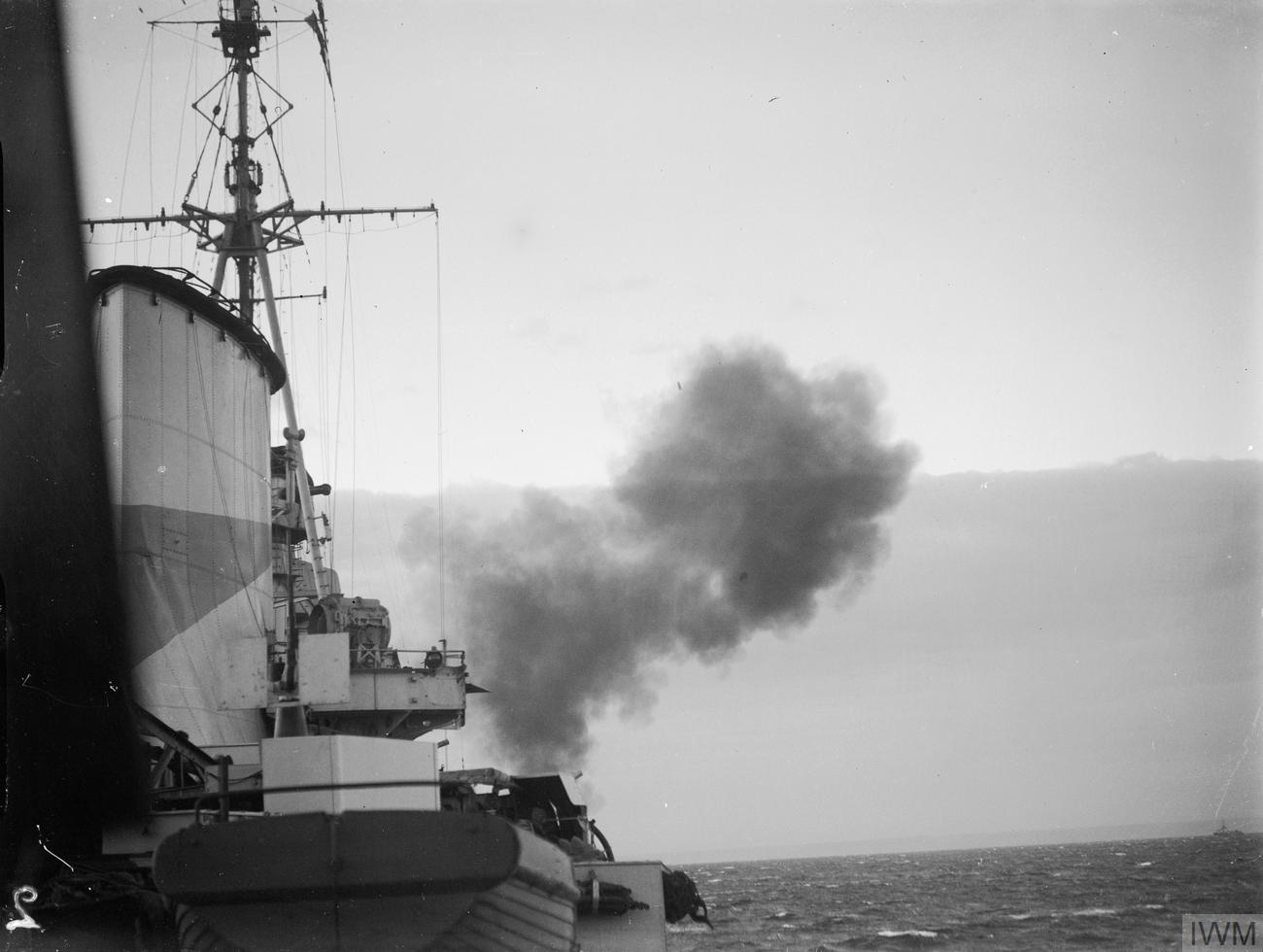 On board HMS AJAX, looking forward, as rounds from her six inch guns are fired into Bardia, Libya